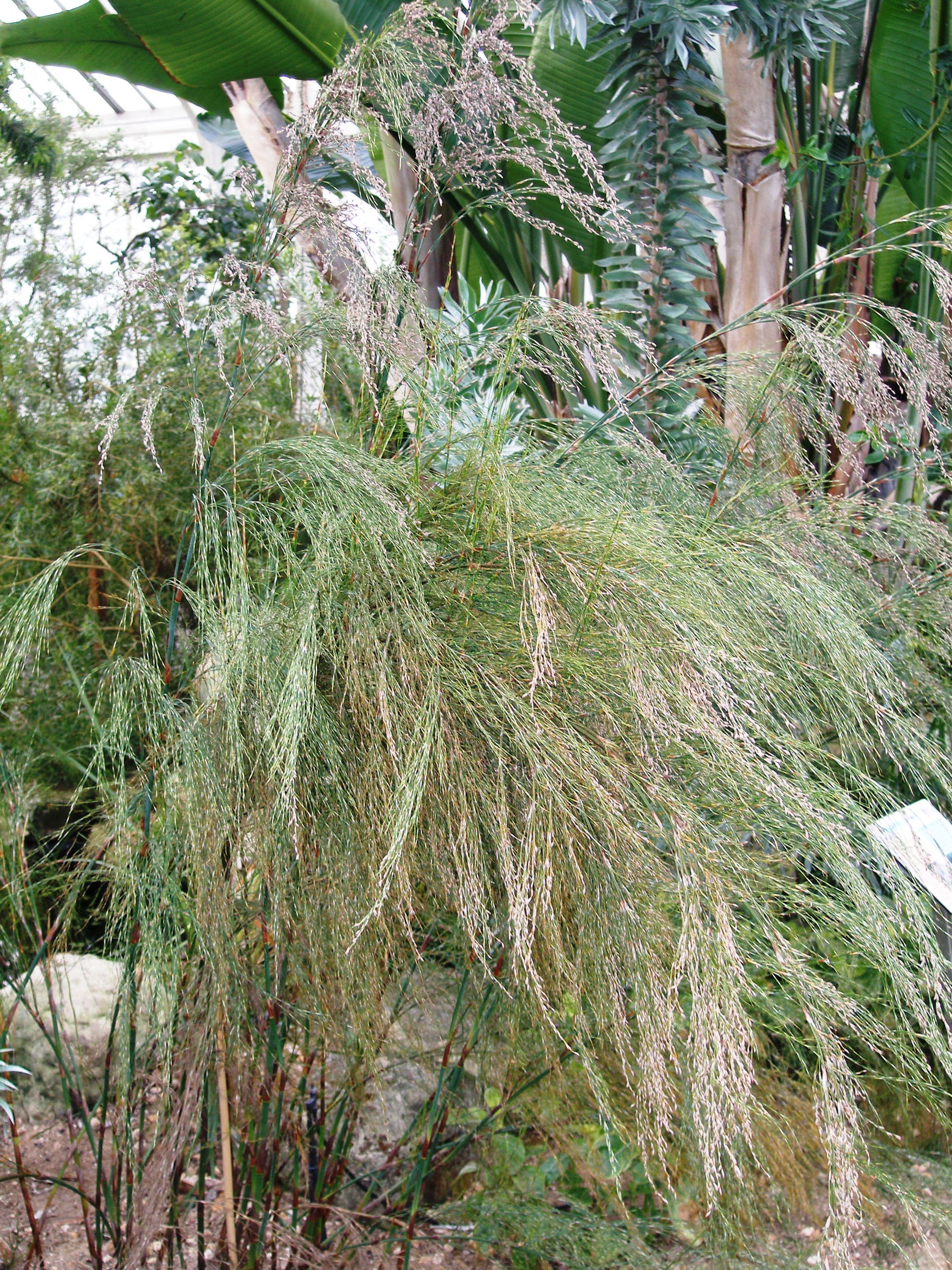 Specimen in cultivation at the Royal Botanic Gardens, Kew, United Kingdom.